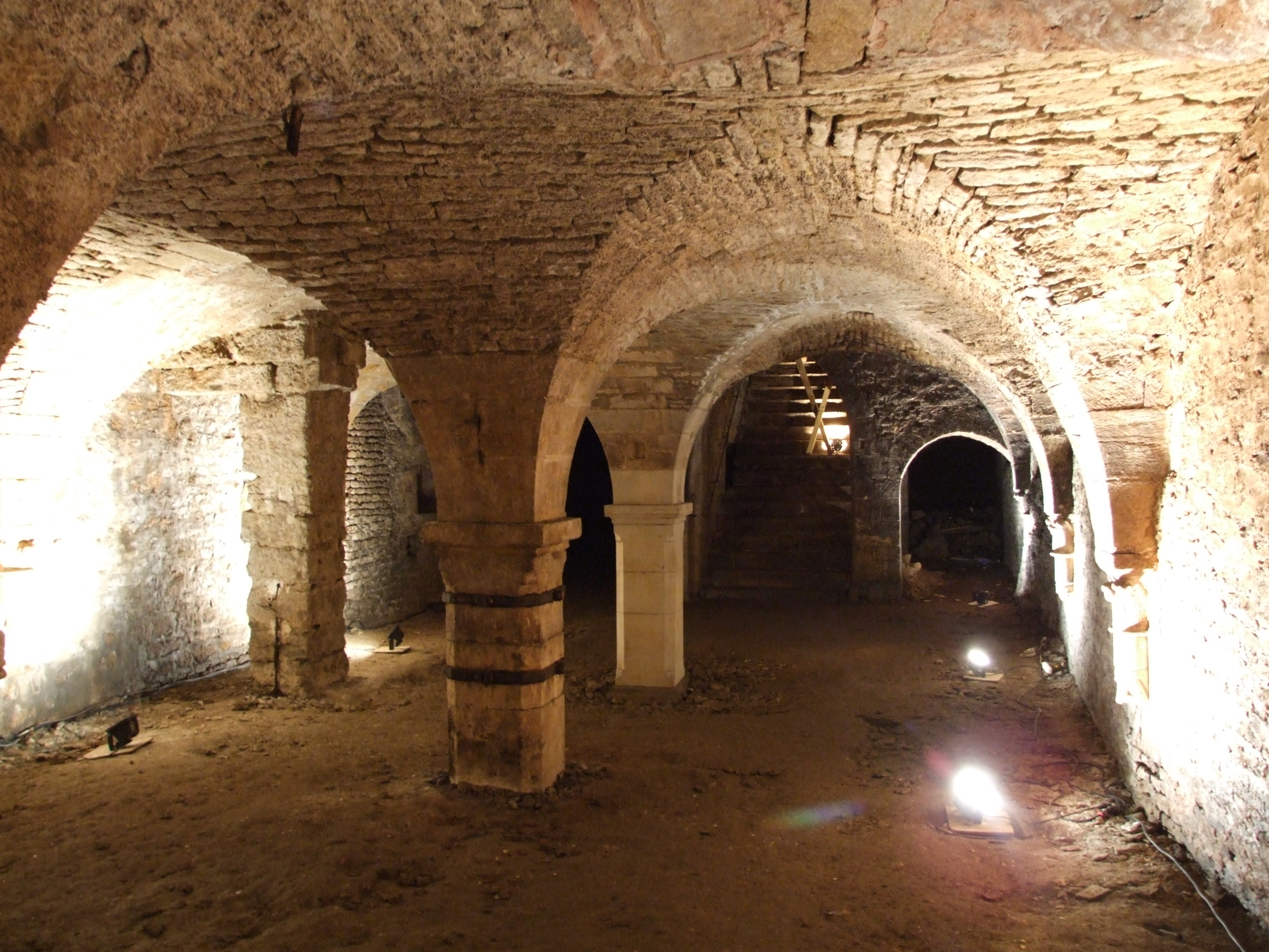 Langres, FRANCE